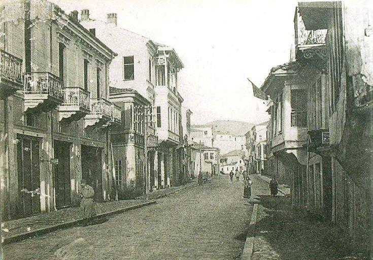 Bitola (1914), Macedonia